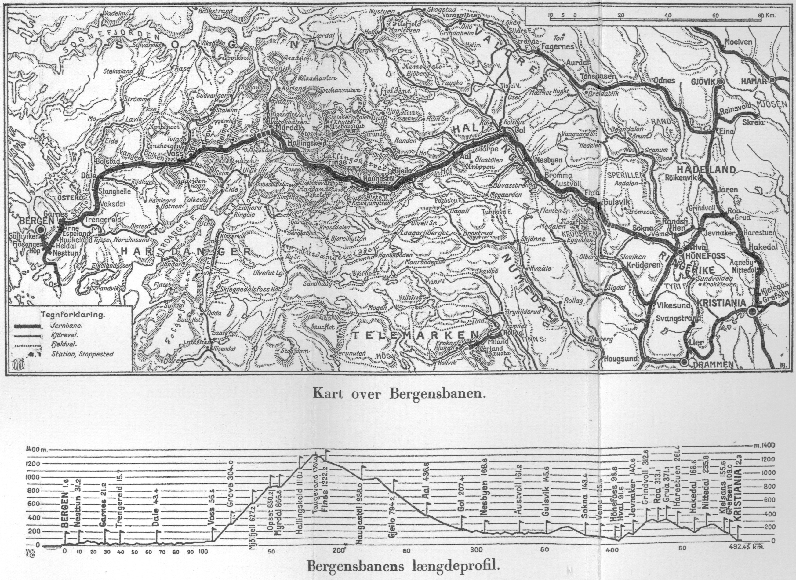 Map of Bergensbanen railway, Norway; year 1924.